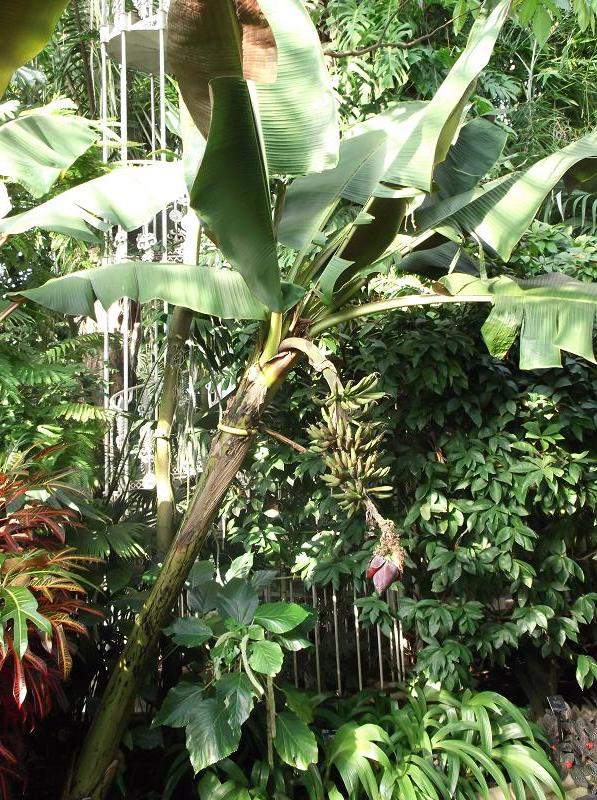 Musa acuminata ssp.zebrina in Kew Gardens, England.